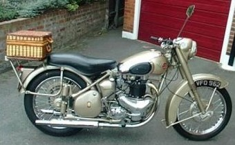 1957 BSA Gold Flash 650 - RHS. Photo taken on inspection trip to purchase, it is presently my motorcycle